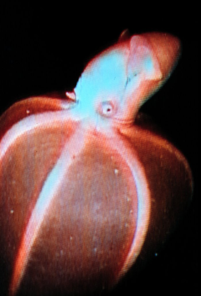 From Bild:Vampyroteuthis.jpg, Uploaded 21:15, 5. Jan 2004 by Benutzer:Necrophorus. Original description: Aus dem GIMP-Archiv :Probably misidentified - seems to be a Stauroteuthis syrtensis from video here. -- Dysmorodrepanis